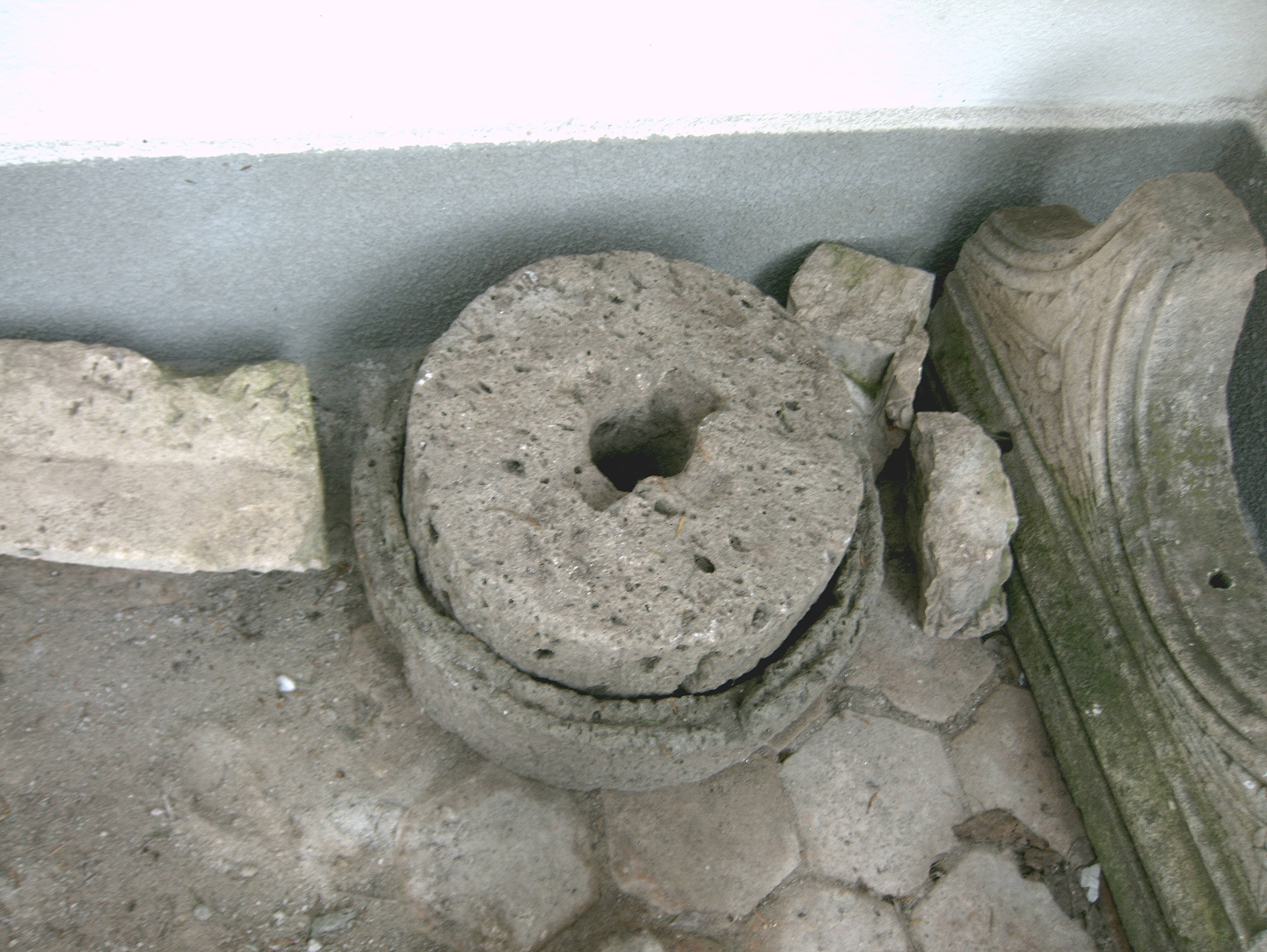 Roman quern (hand mill) found in Sâncrai, Alba (now Aiud), Romania.